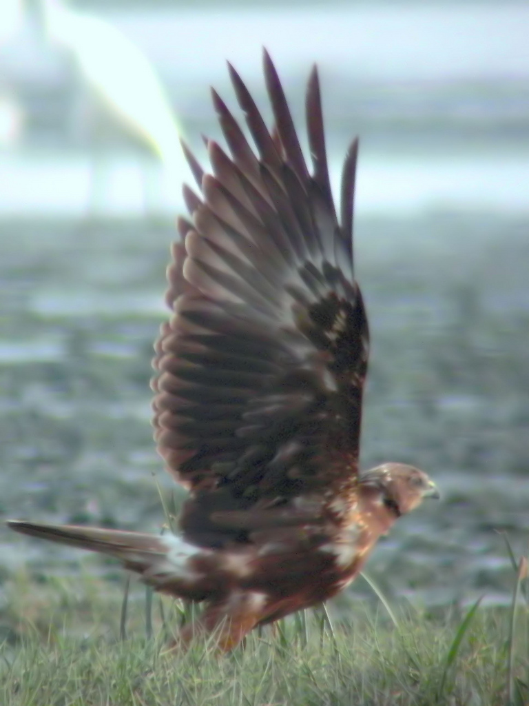 Female Eastern/Western Marsh Harrier hybrid (Circus spilonotus × aeruginosus) at the Hongkong marshes